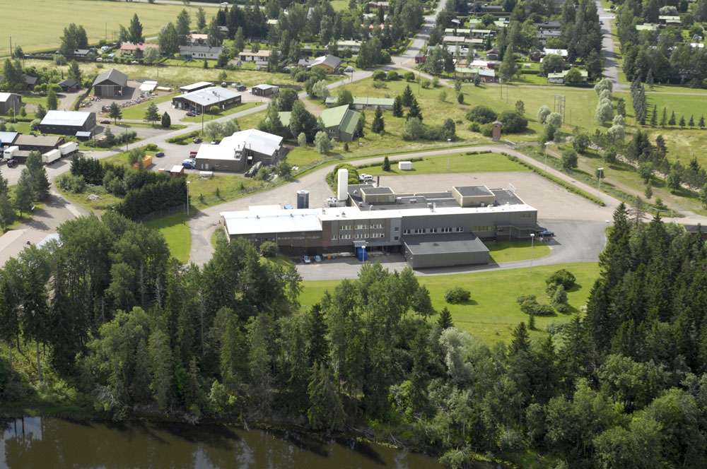 Kaslink factory in Kouvola, Finland